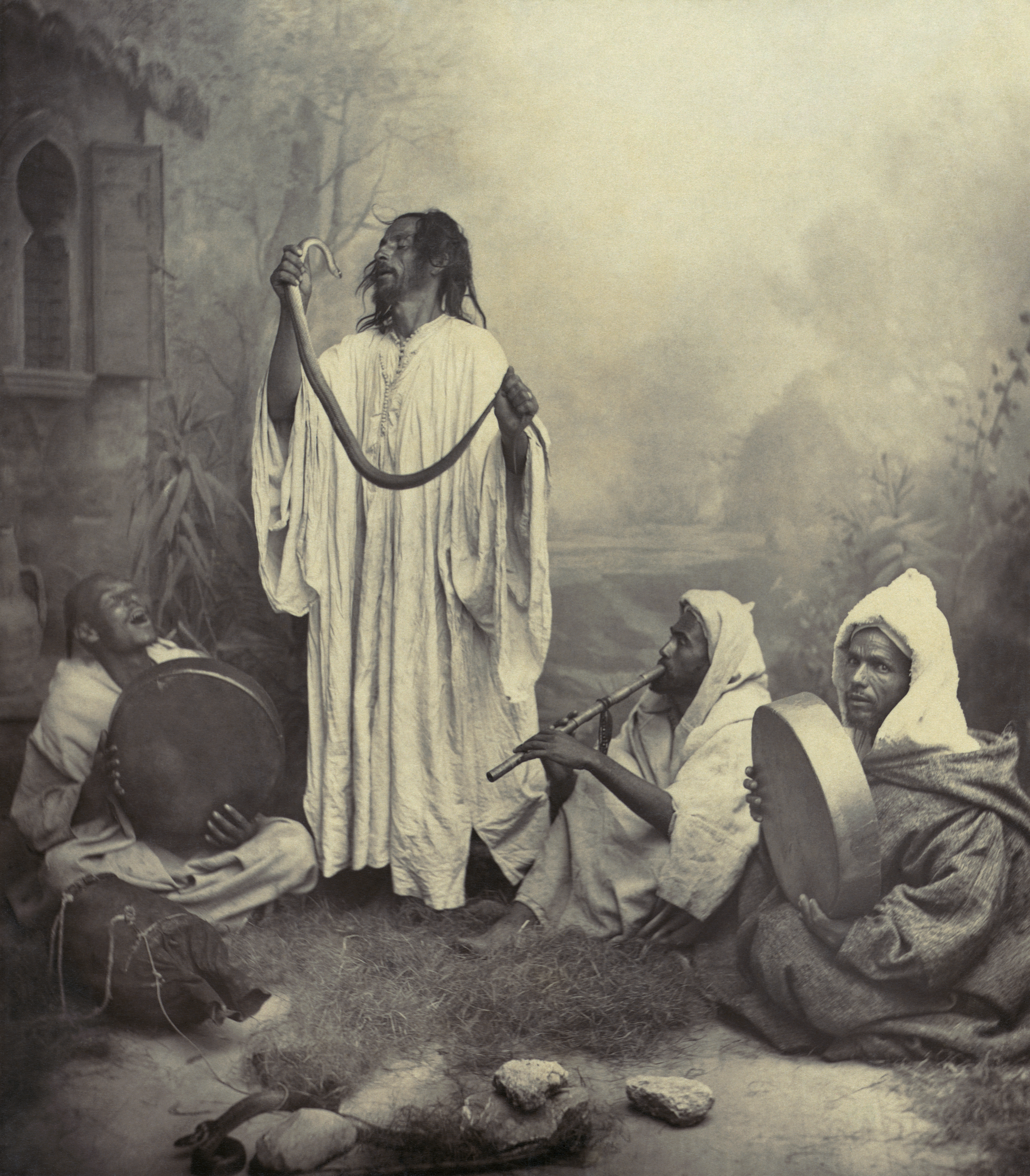 Snake charmers, Morocco, Tangiers One man standing holding a snake, three seated, one playing flute and two playing hand drums. 1 photographic print: albumen.